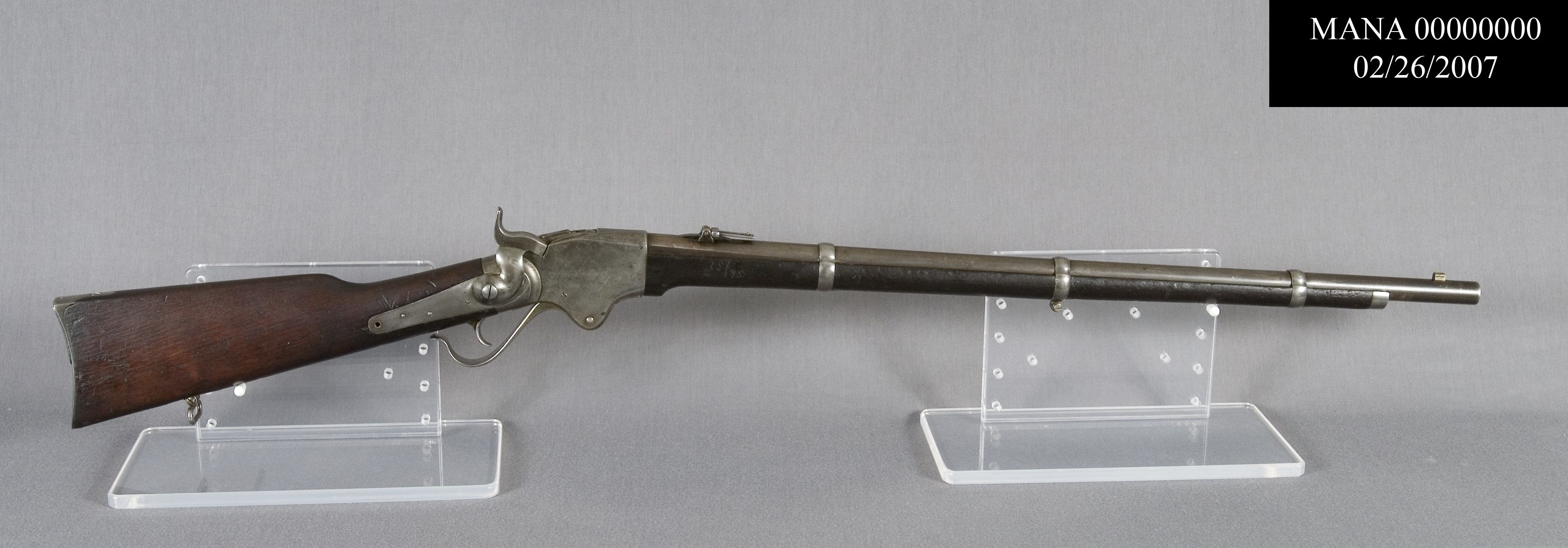 M1865 Spencer Repeating Rifle